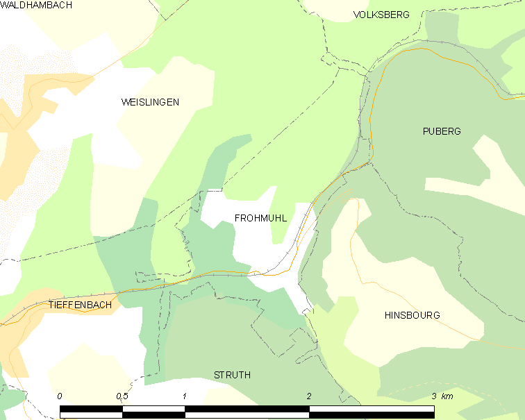 Map of French municipality